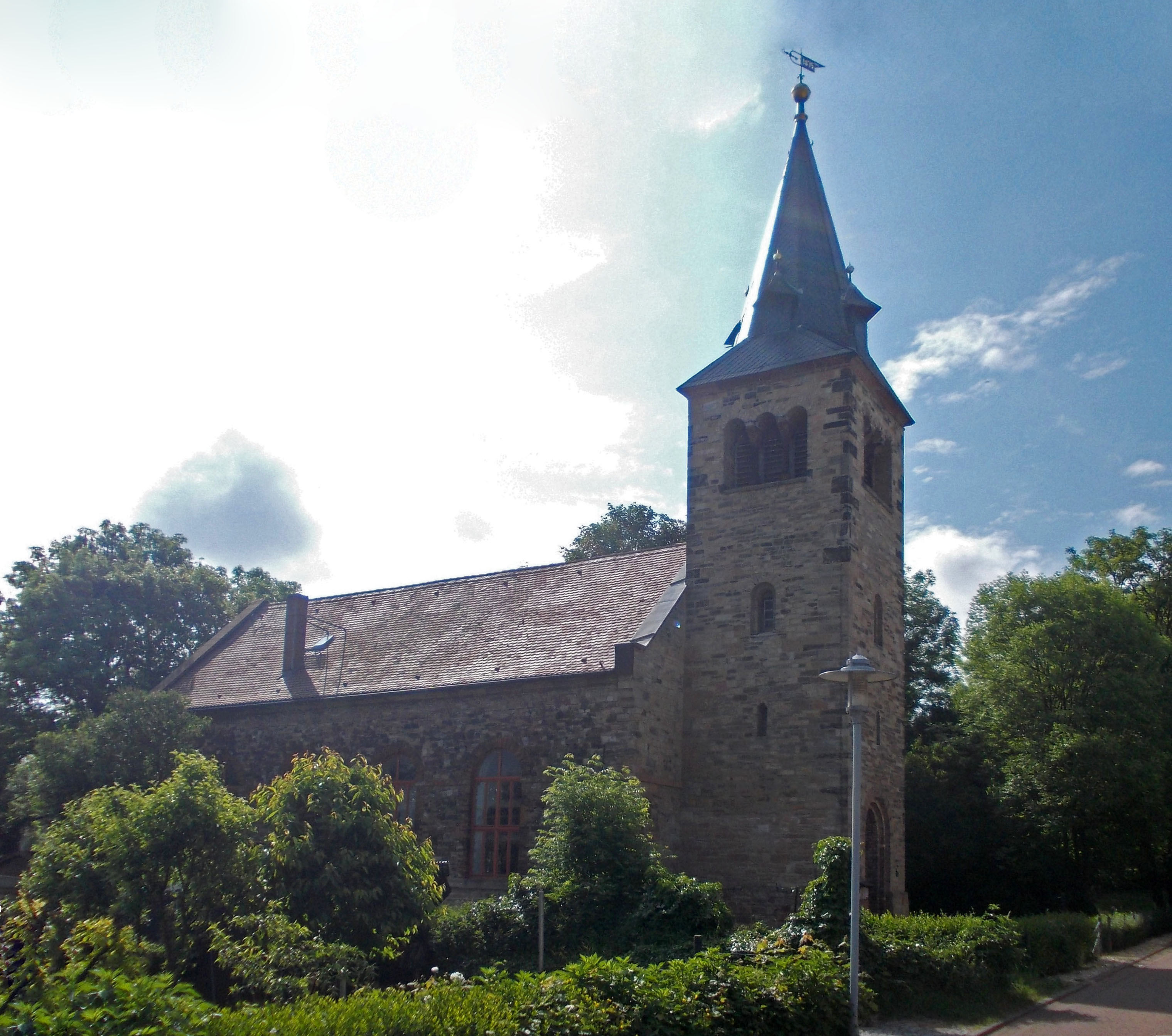 St. Magdalene's Church in Langenbogen (Teutschenthal, district: Saalekreis, Saxony-Anhalt)